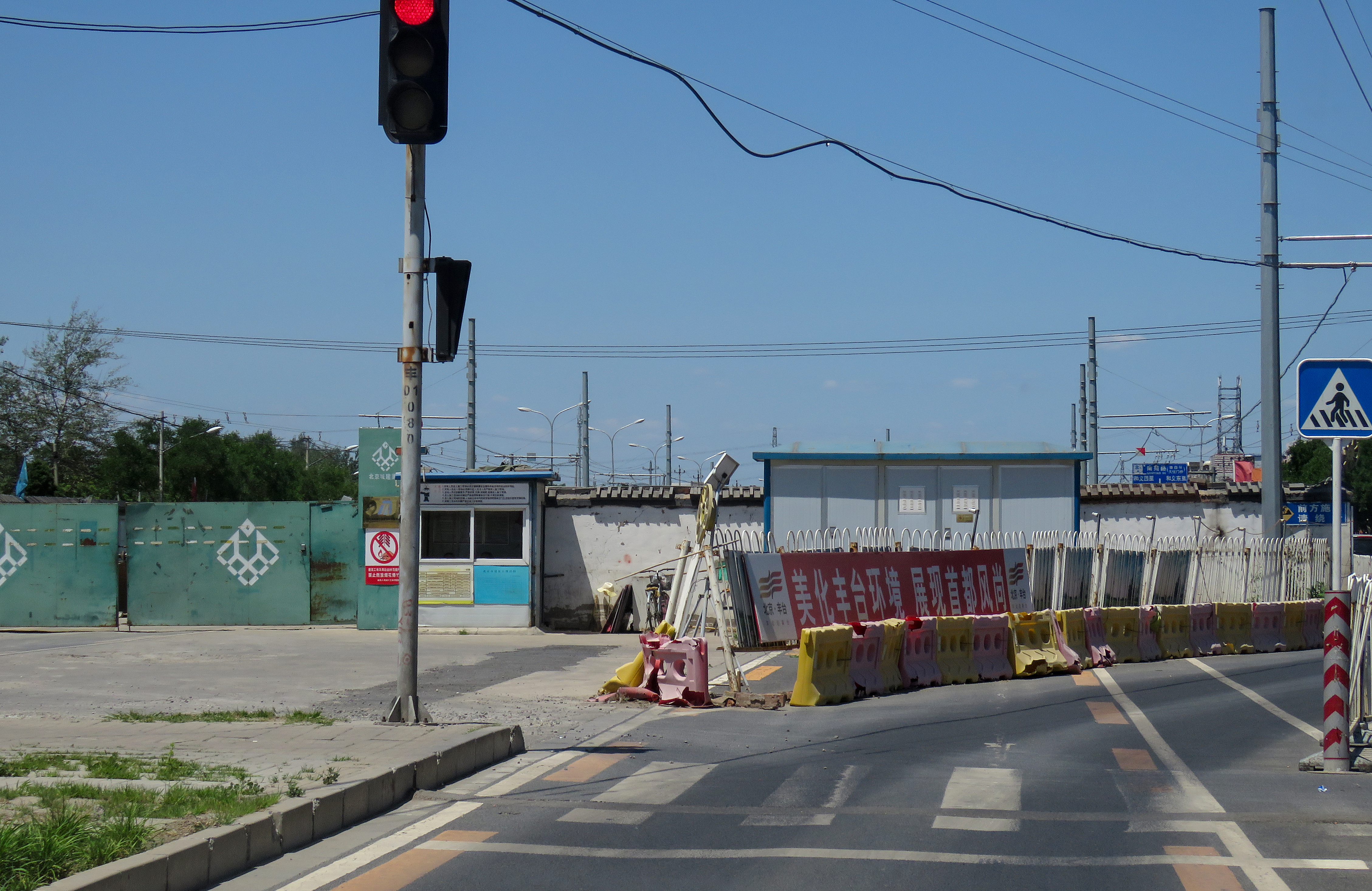 Still don't know its decoration.